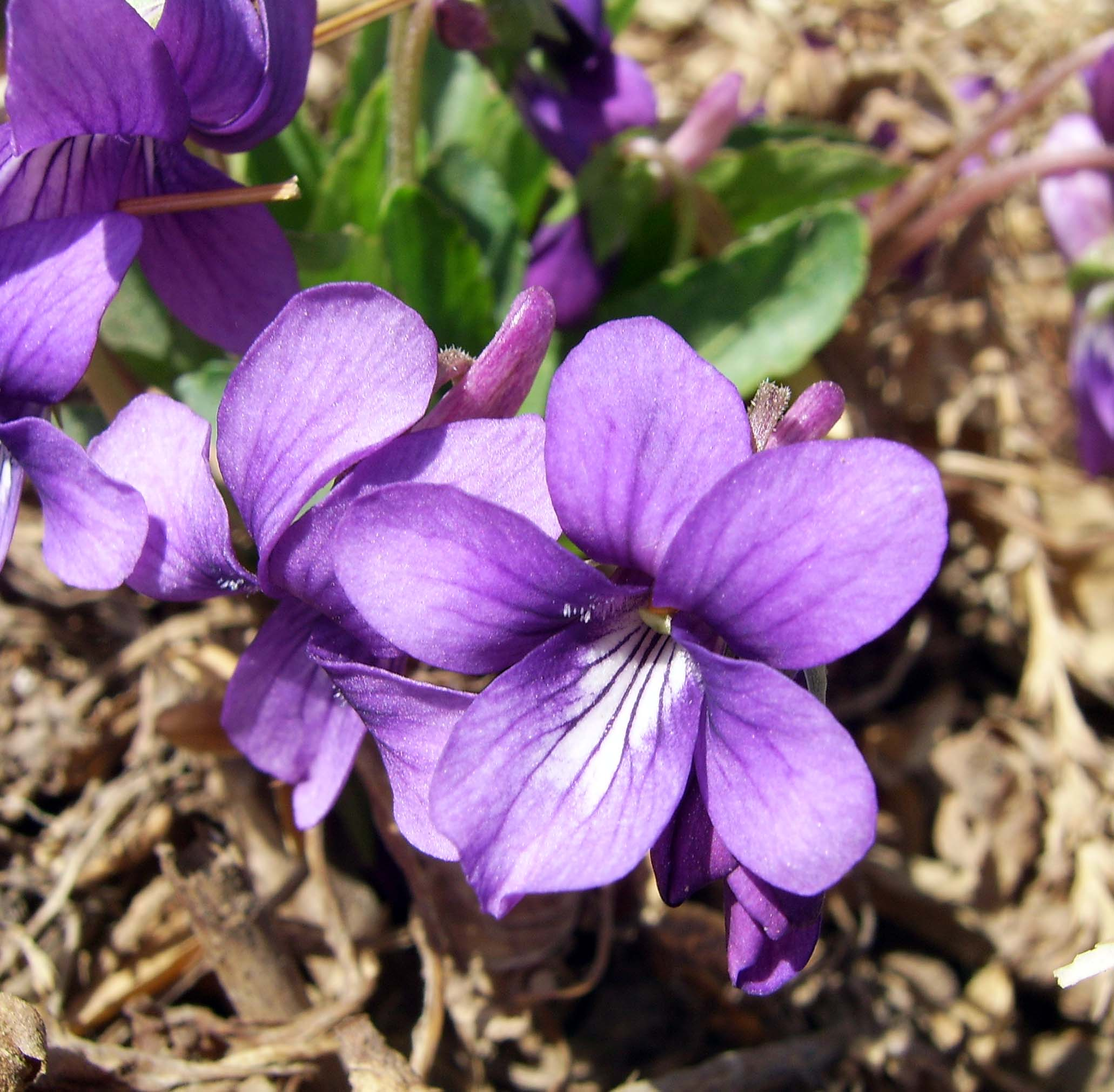 紫花地丁（Purpleflower Violet）